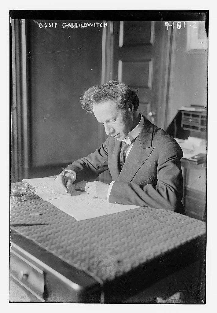 Ossip Gabrilowitsch in 1917